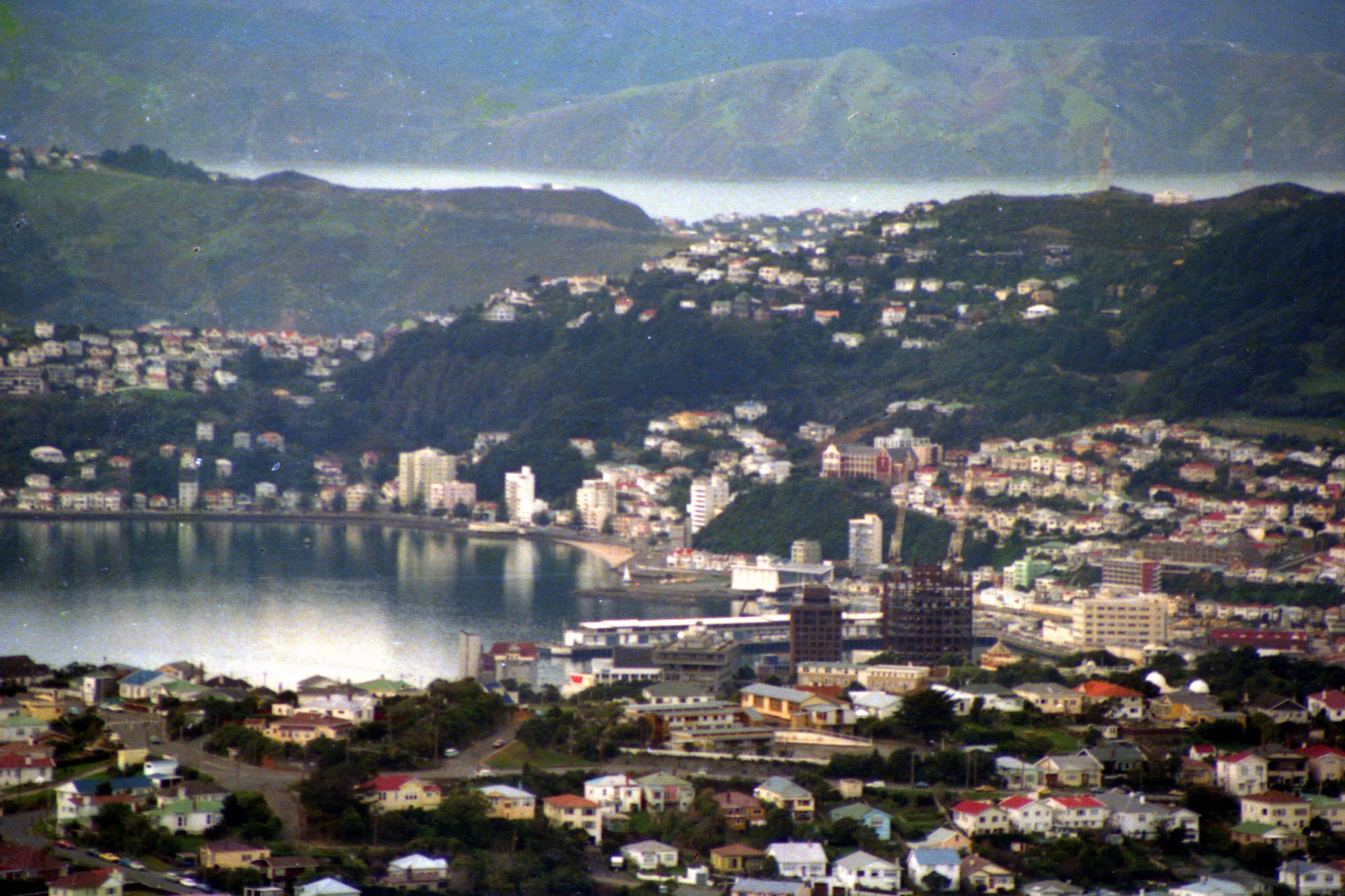 Aerial view across central Wellington from the direction of Johnson's Hill, Karori. In the foreground is the suburb of Northland which sits on a ridge that hides the Botanic gardens and much of central Wellington from view. The BNZ tower under construction can be seen emerging from central Wellington. In the centre is Oriental Bay backing up onto Mt Victoria which is topped with two radio masts (only one mast remains today). In the background is the entrance channel to Wellington Harbour.